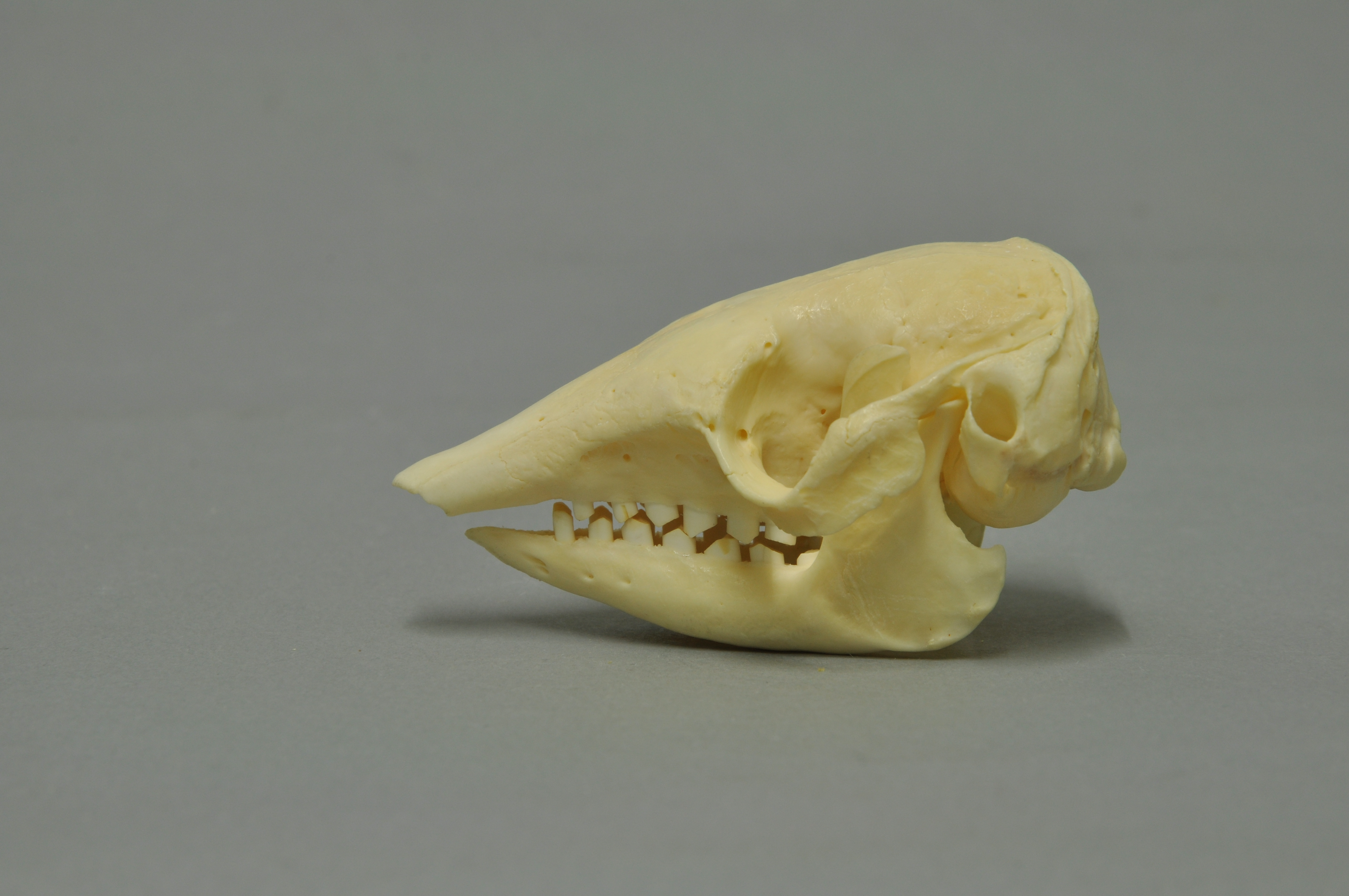 Six-banded armadillo Euphractus sexcinctus, skull, Coll. Museum Wiesbaden